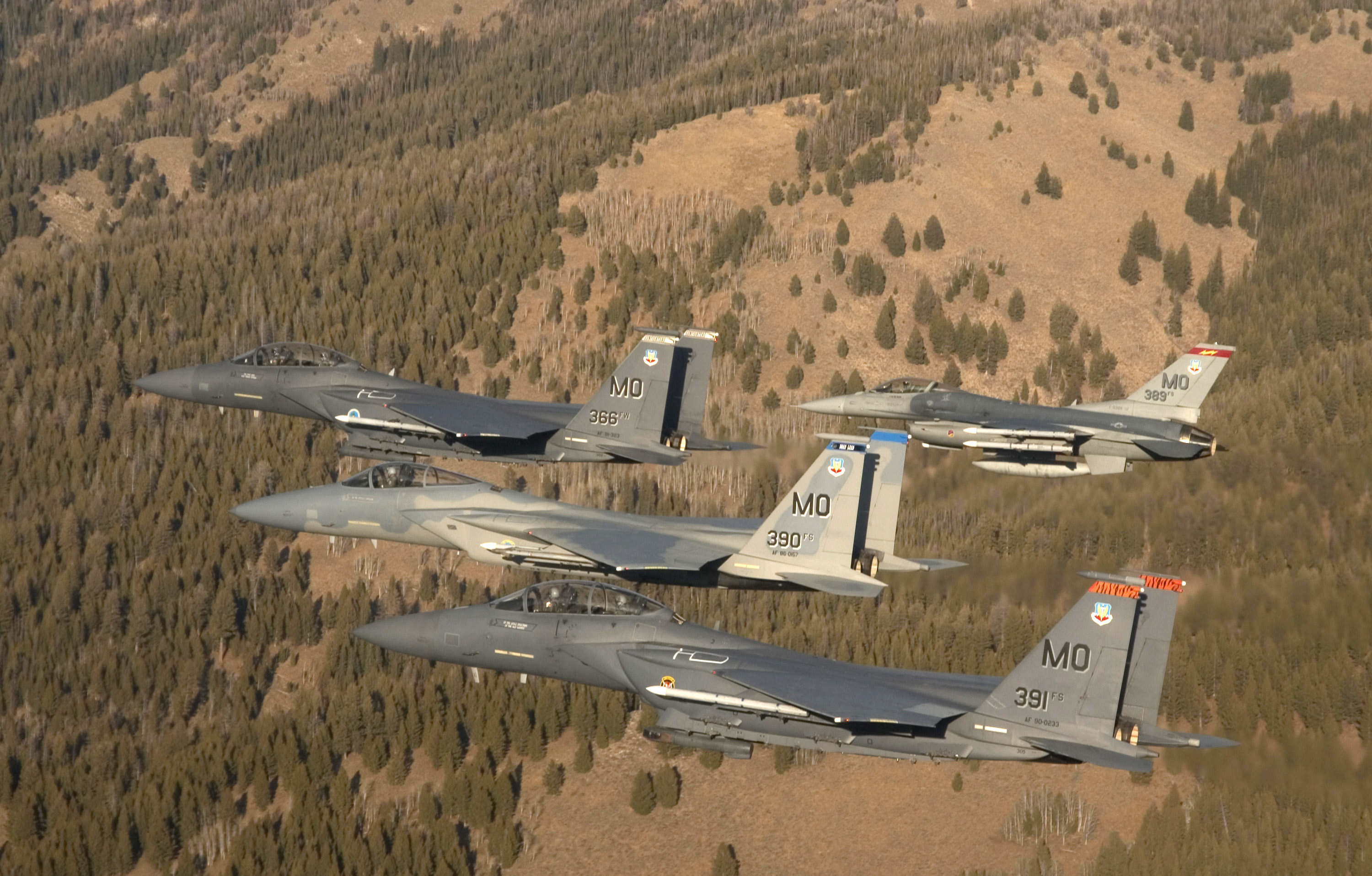 A four-ship formation flies out to the Idaho training ranges Nov. 1. Col. Anthony Rock, 366th Fighter Wing commander, led the formation consisting of two F-15 Strike Eagles, an F-15 Eagle and an F-16 Fighting Falcon from the 366th FW at Mountain Home Air Force Base, Idaho.